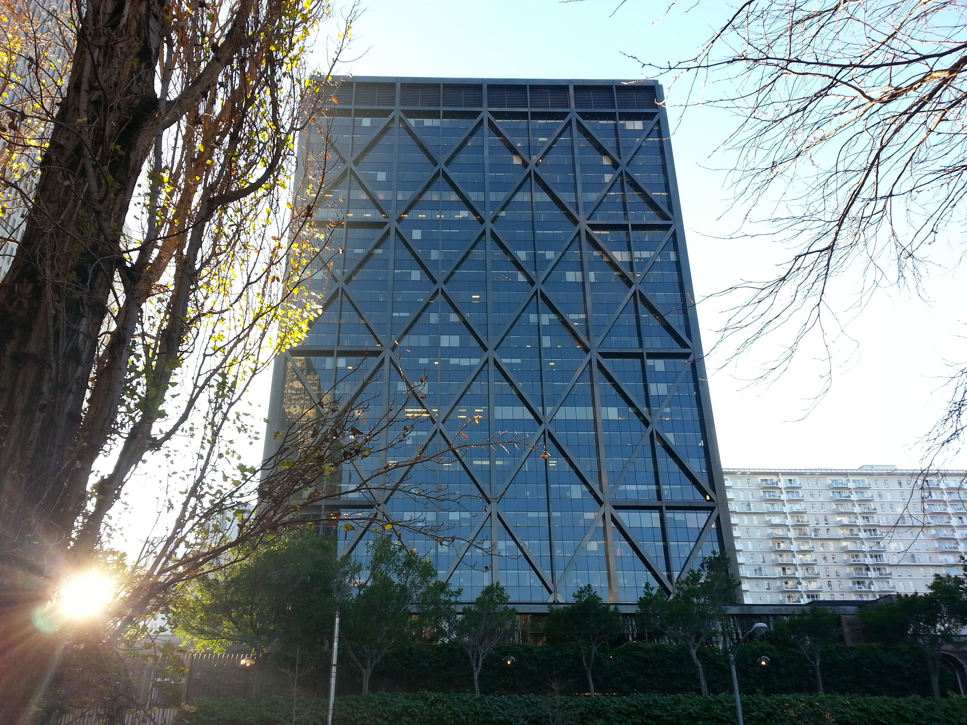 One Maritime Plaza office tower in San Francisco's Financial District near the Embarcadero Center towers on Clay and Front Streets.